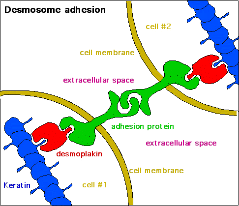 Diagram of desmosomal adhesion. The key molecular components are shown that allow desmosomes to tightly link two adjacent cells. Source: I made this diagram with ClarisDraw and Photoshop. Uploaded for use on the desmosome page. The copyright to this image is retained by John Schmidt (JWSchmidt). Permission is granted to copy, distribute and/or modify this image under the terms of the Wikipedia GFDL, as indicated in the fine print at the bottom of this page. If you do not want to use this image under the terms of the GFDL, you can alternatively use it under the terms of the cc-by-nc-sa license.